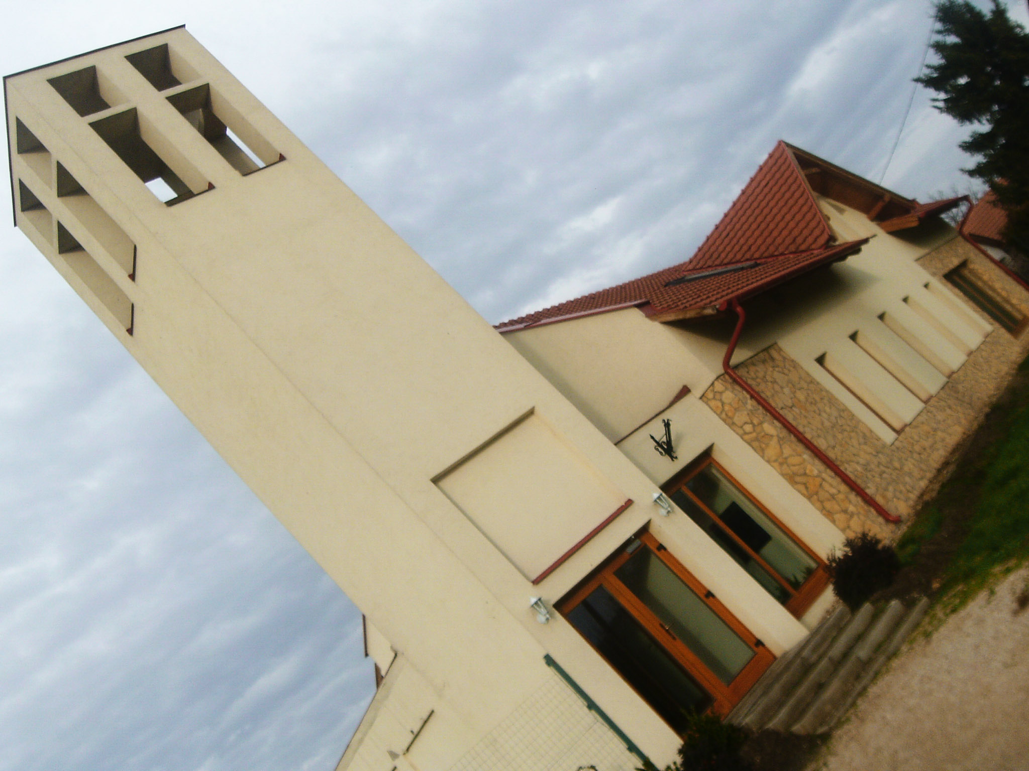 Sárbogárdi templom